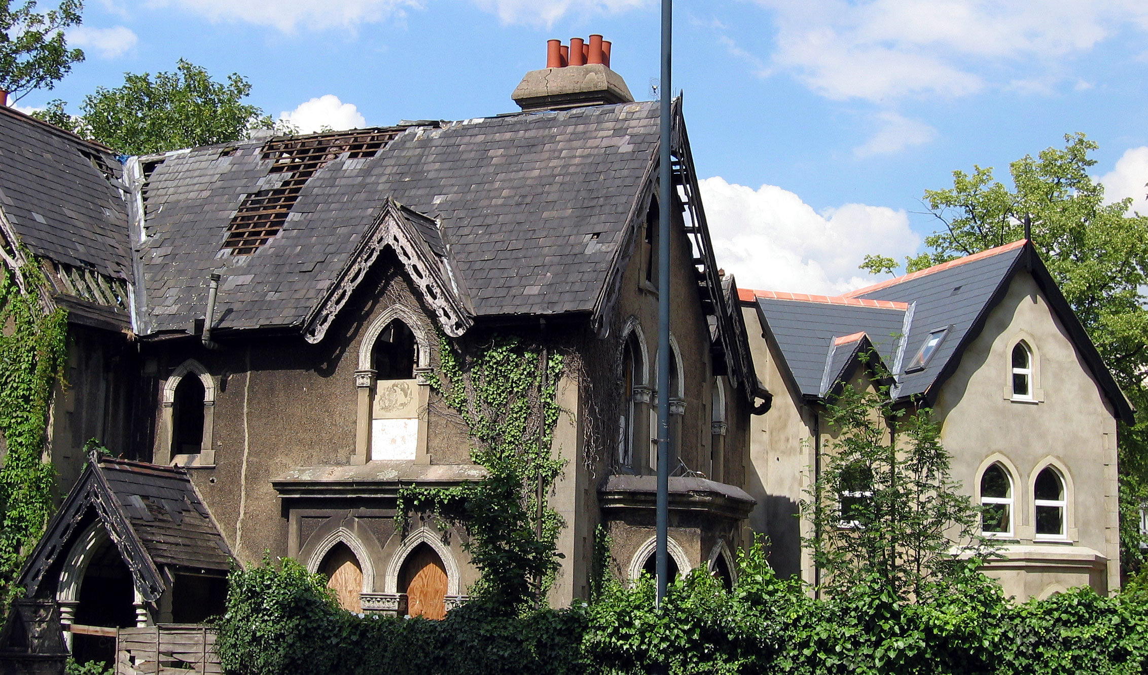 Concrete House, grade II listed, 549 Lordship Lane, Dulwich, Southwark, London. Taken by C Ford, 6th July 2004. 549 Lordship Lane - the "Concrete House" One of the most architecturally interesting buildings on Lordship Lane. The so-called "Concrete House" is a derelict grade II listed building and is an example of 19th century concrete house. It is believed that it is the only surviving example in England. The Concrete House was built in 1873 by Charles Drake of the Patent Concrete Building Company. In 1867 the builder had patented the use of iron panels for shuttering rather than timber. It is listed on the English Heritage Buildings At Risk register.